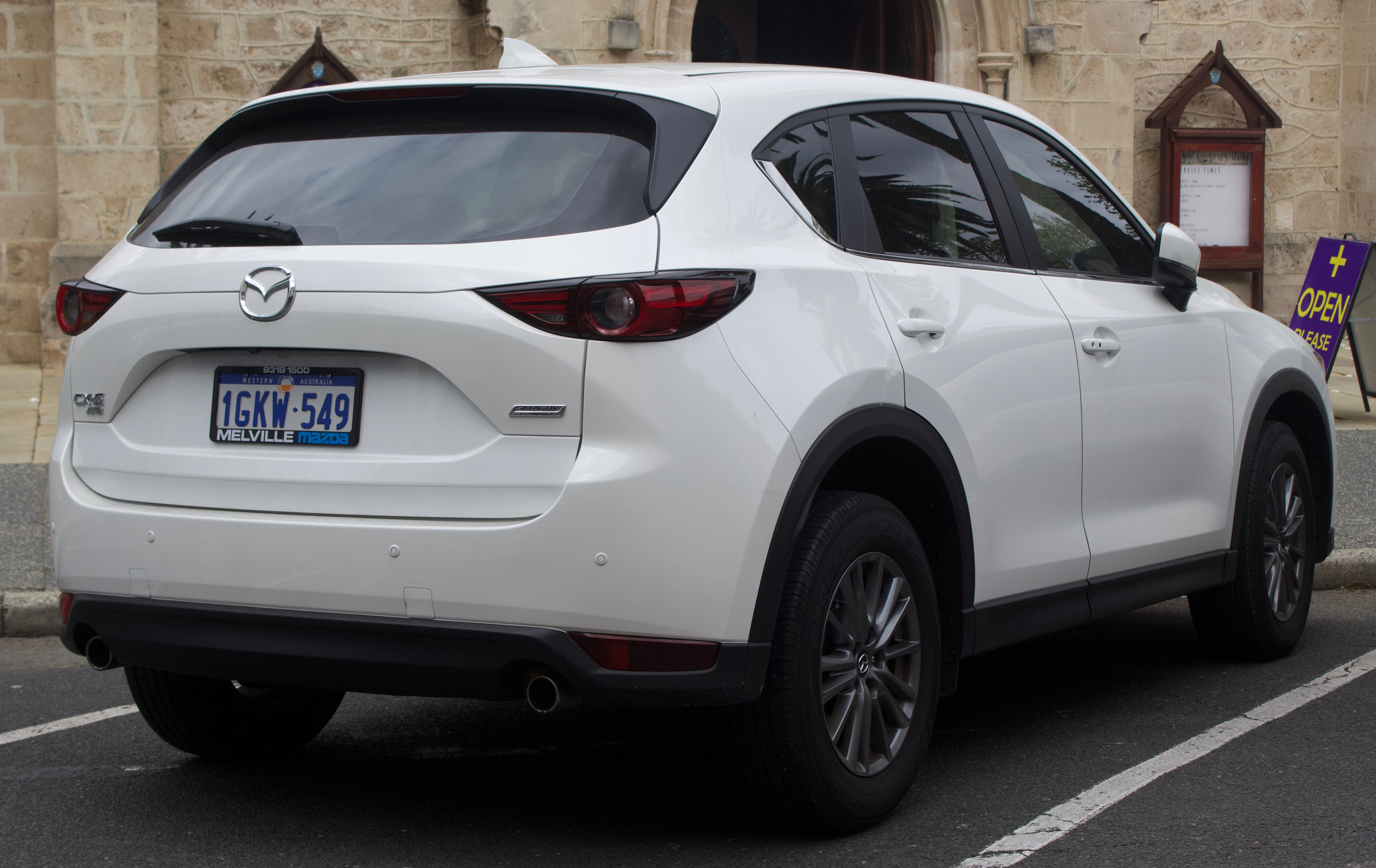 2017 Mazda CX-5 (KF) Touring AWD wagon. Photographed in Fremantle, Western Australia, Australia.